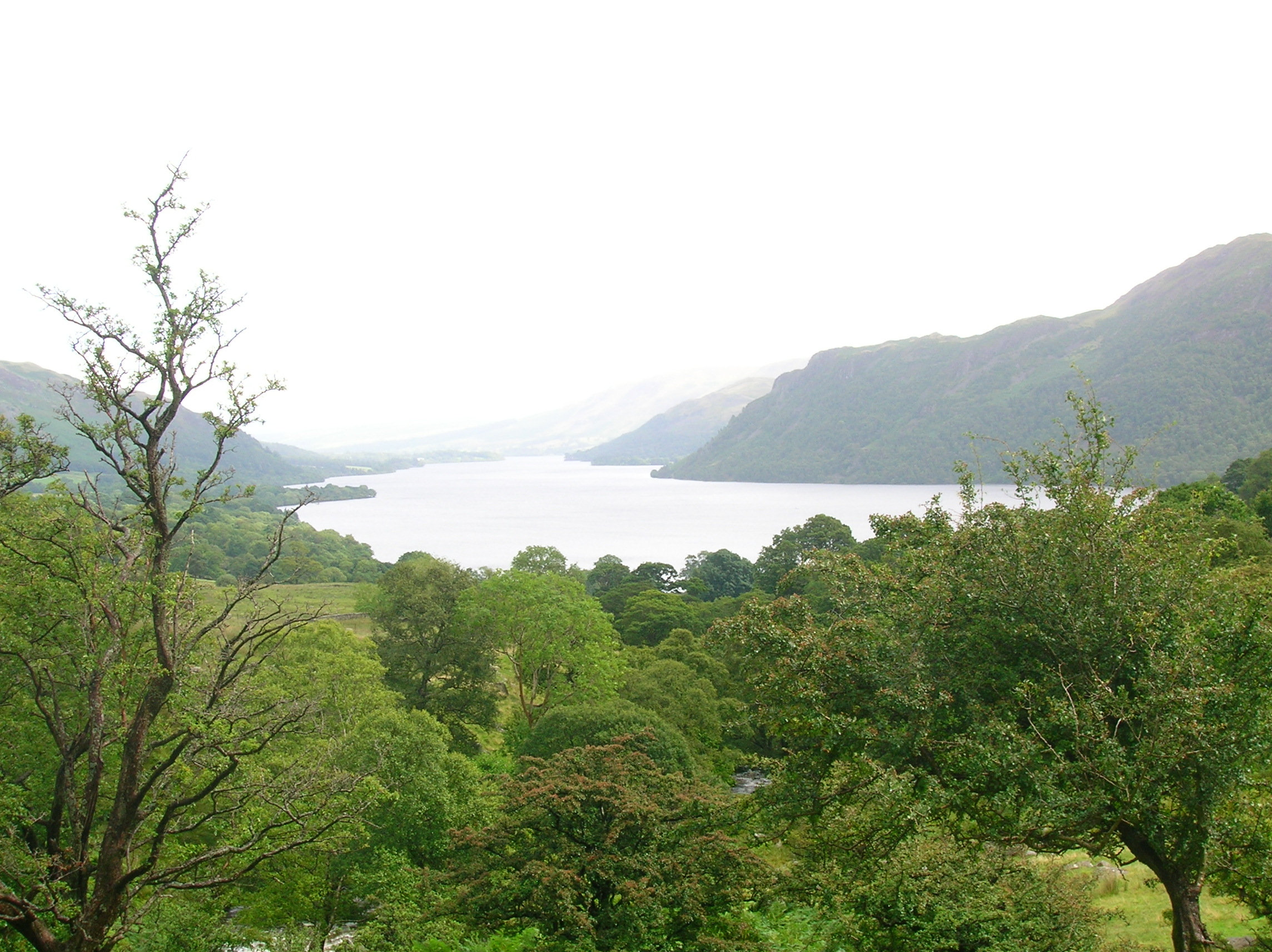 Ullswater from Glencoynedale, Penrith, England